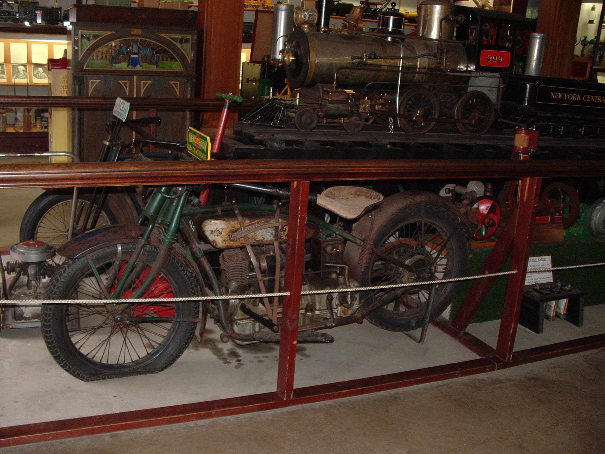 1926 Henderson motorcycle, side view. Taken at Clark's Trading Post, Lincoln, New Hampshire